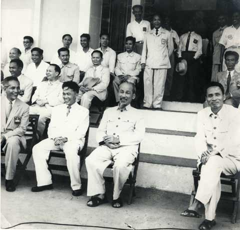 On 24 August 1958, President Ho Chi Minh was watching a soccer game between Hai Phong team and Phnompenh team in Hang Day Stadium, Hanoi. There are also Prime Minister Pham Van Dong (first row, first right), Deputy Prime Minister Truong Chinh, who later became Party General-Secretary in 1986 (second row, second from left)